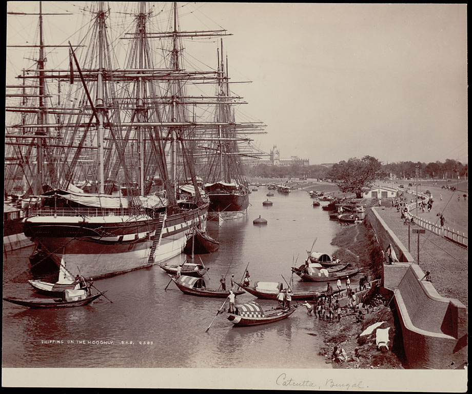 Sailing ships and other boats docked along the Hooghly River in Calcutta.